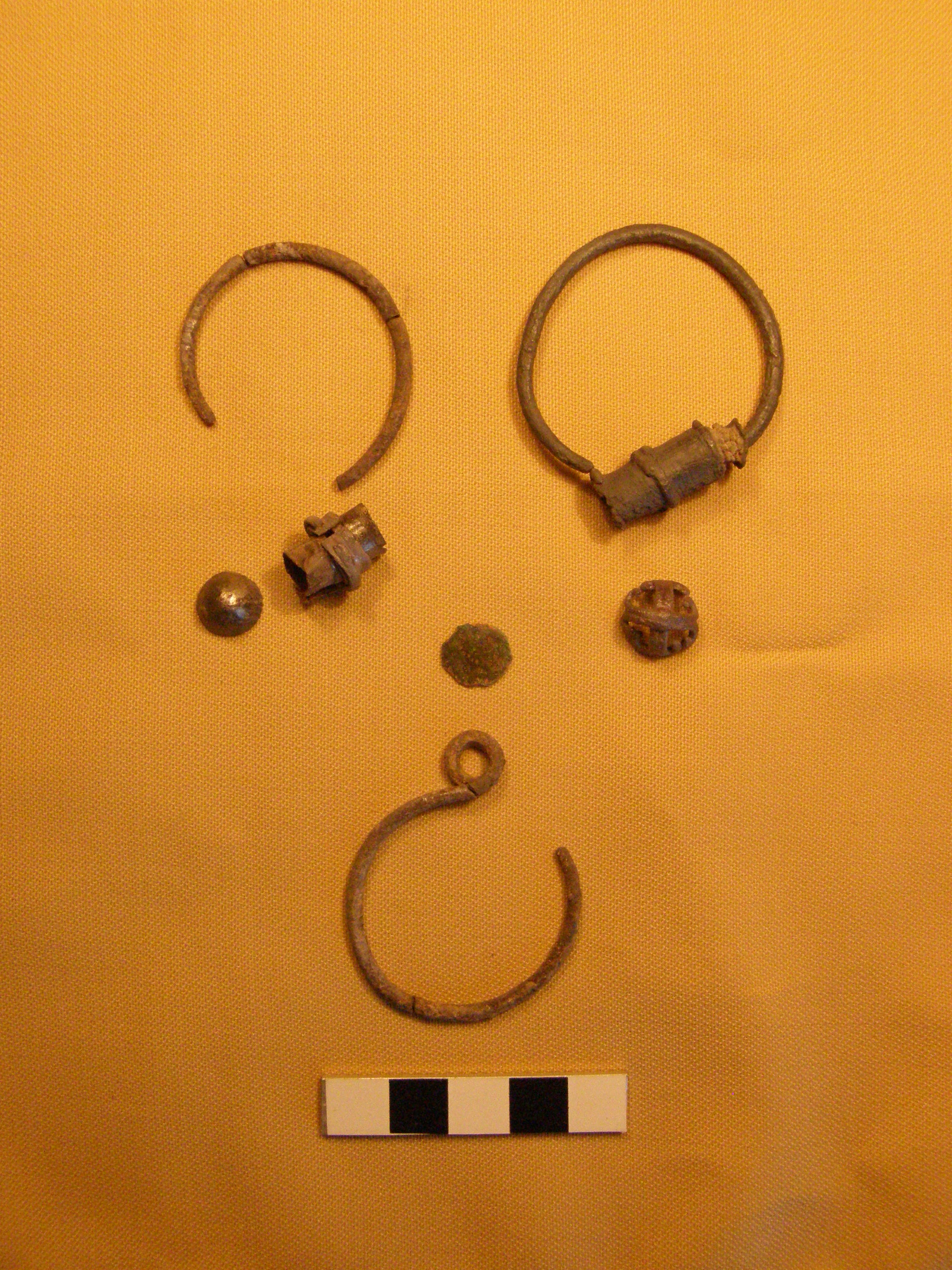 Personal items found in tonb 12, necropolis 6. Three silver hoop earings from the 6th century AD.